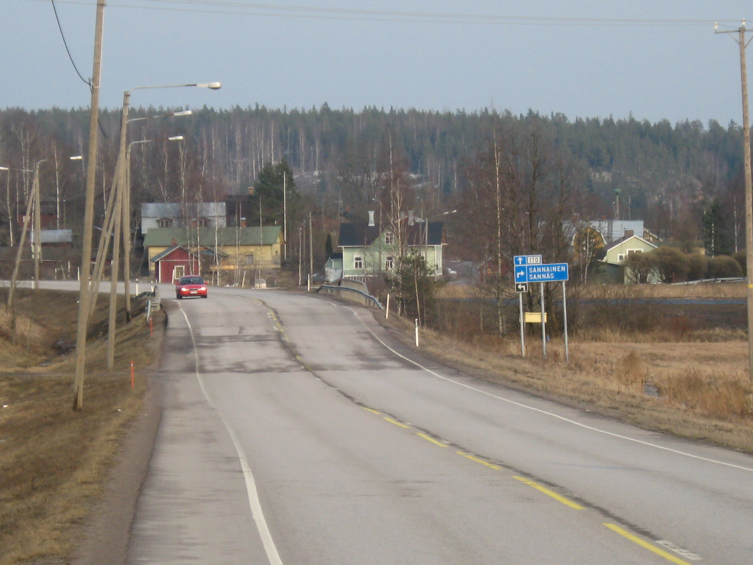 National road 170 in Porvoo, Finland